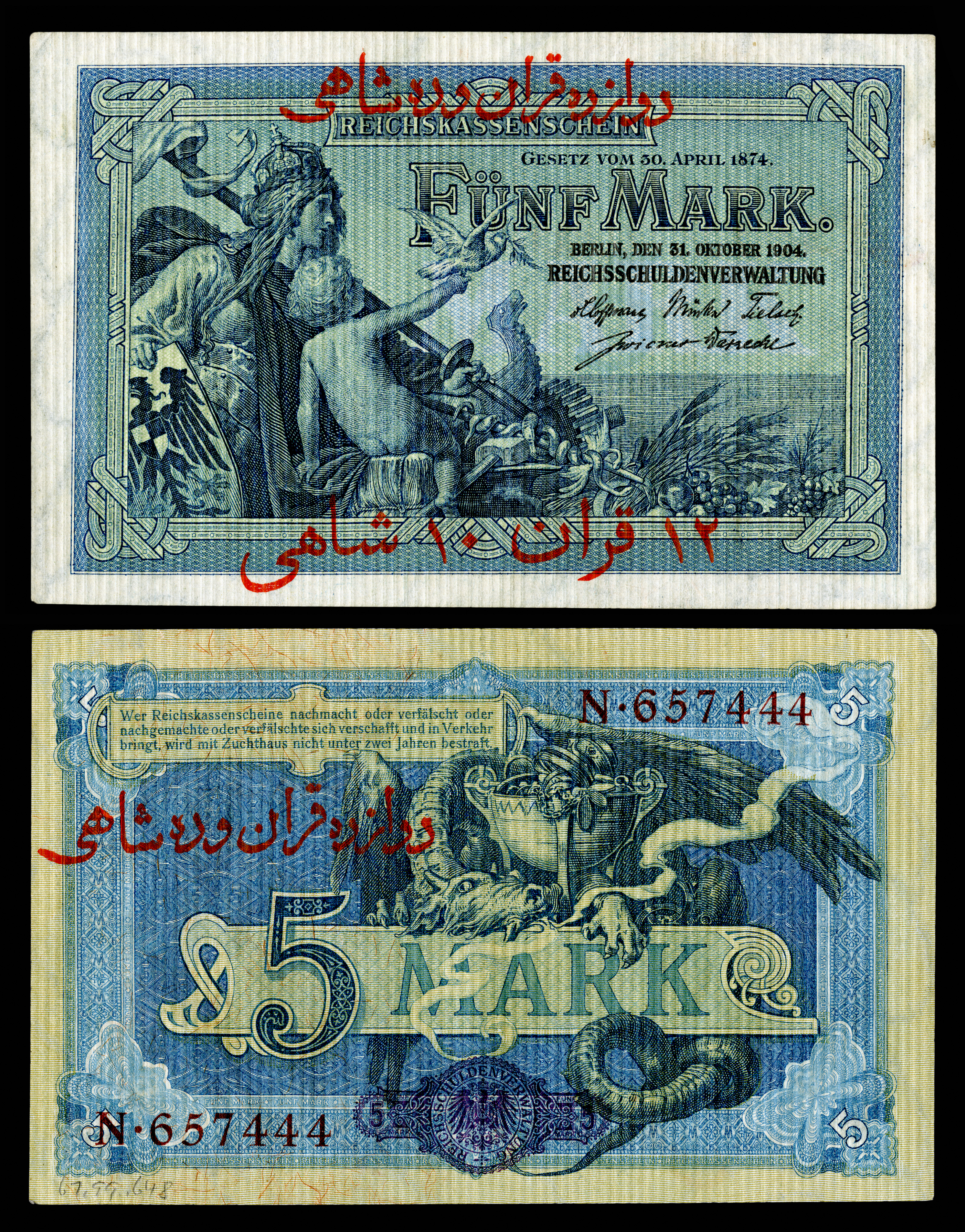 German Treasury, 12 qiran (or Kran) 10 Shahi on 5 Mark (1916-1917).German issued World War I occupation currency for Iran.